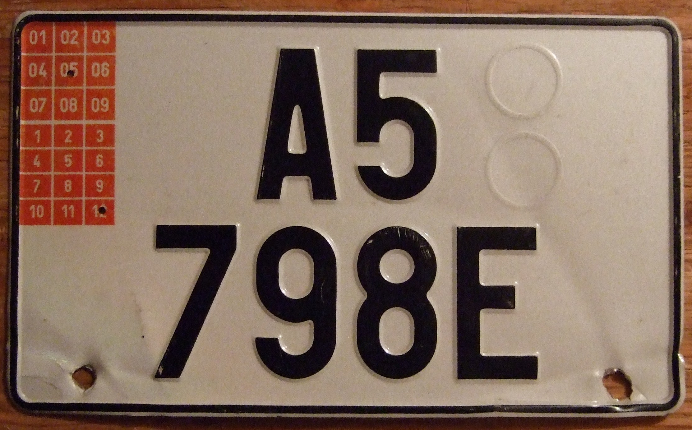 This export plate from the Czech Republic has what appears to be a checkerboard in the top left corner. This denotes the date of expiry which in this case in December 2005. The "05" box which dentoes the year 2005 and the "12" box which denotes the month od December have been punched through the plate.